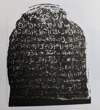 Ataragala Tamil inscription